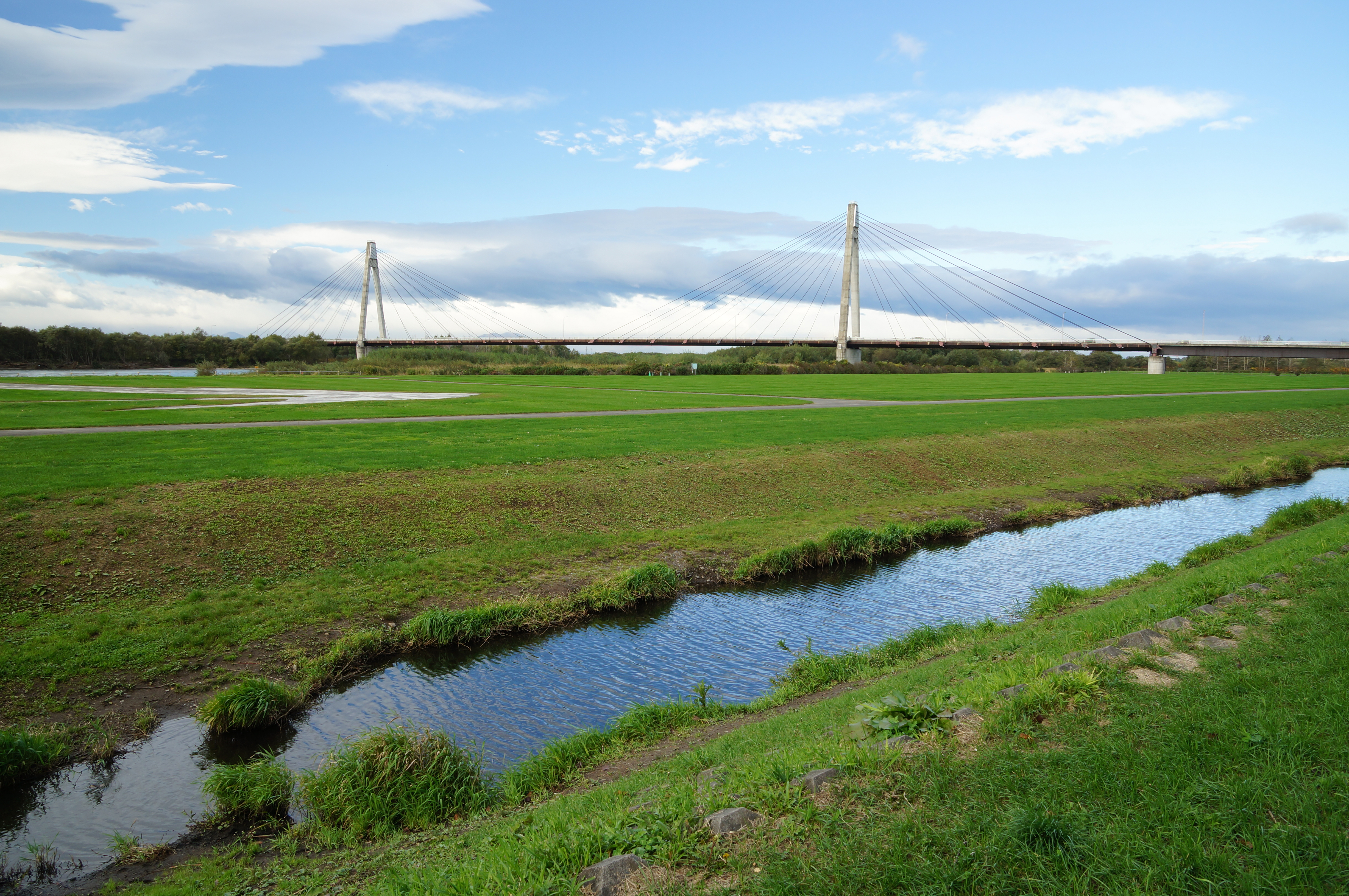 At Tokachigawa Onsen in Otofuke, Hokkaido prefecture, Japan.